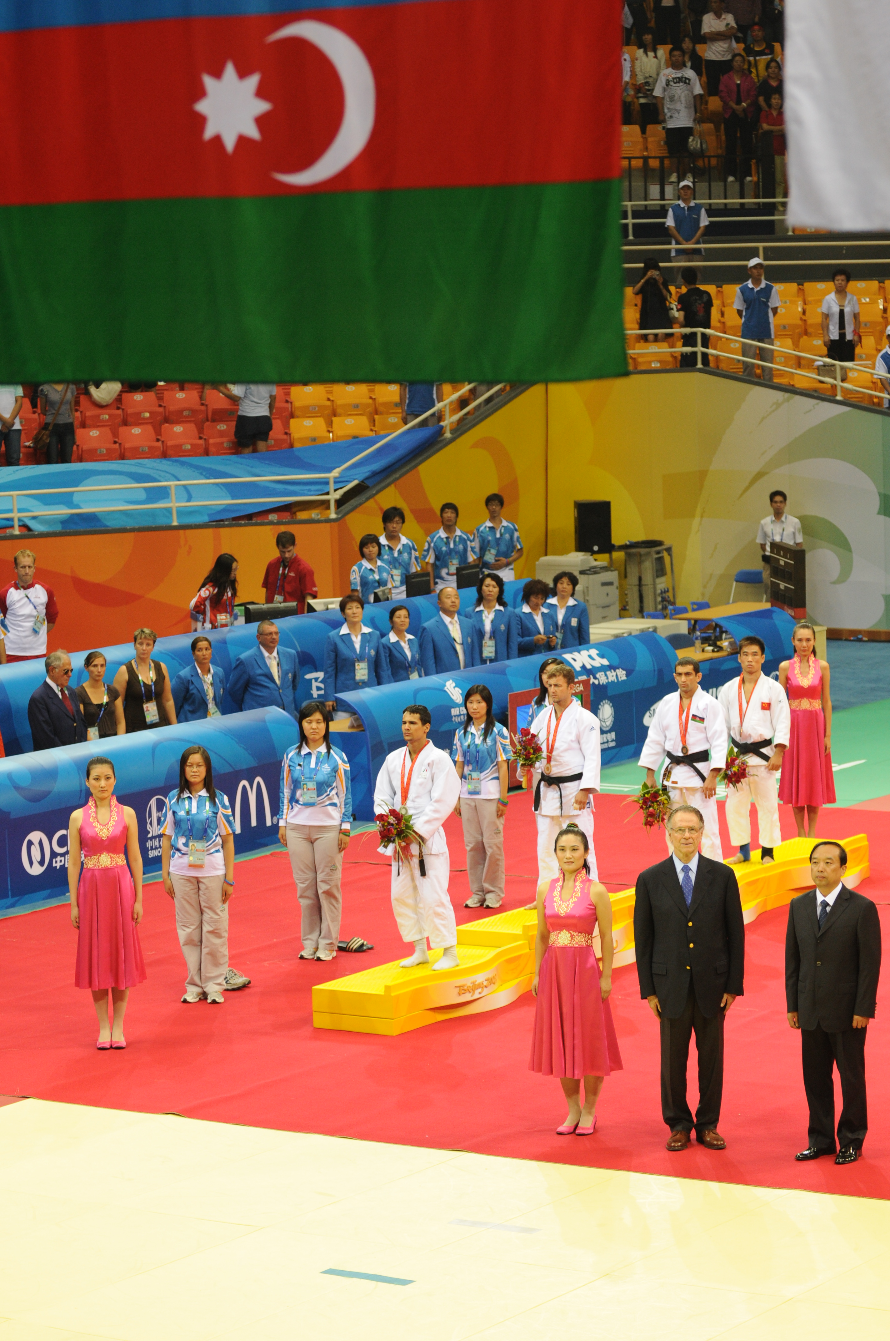 Ramin Ibragimov at 2008 Paralympics